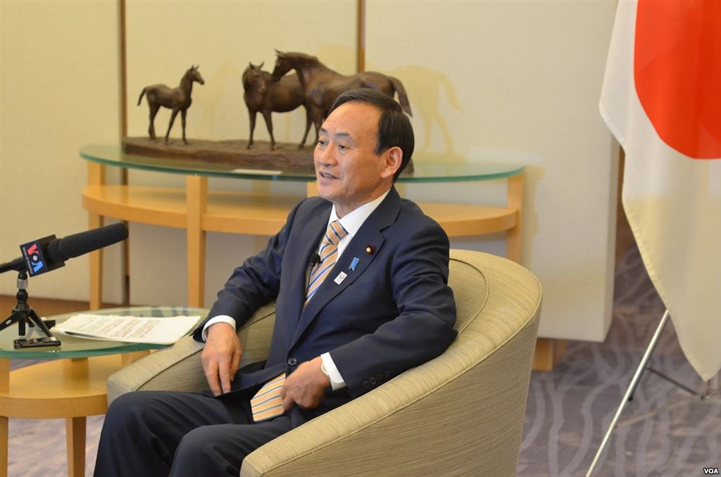 Japan's Chief Cabinet Secretary Yoshihide Suga speaks to VOA, Tokyo, Japan, February 4, 2013.